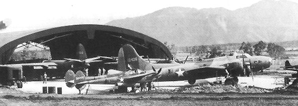 B-17E Fortress 41-2426, 431st Bomb Squadron in August 1943 at the Thirtenth Air Depot, Tontouna Airfield, New Caledonia in for depot-level maintence along with a P-38, P-39 and B-26. This B-17 was returned to the United States in Feb 1944 as War Weary. (USAAF Photo)